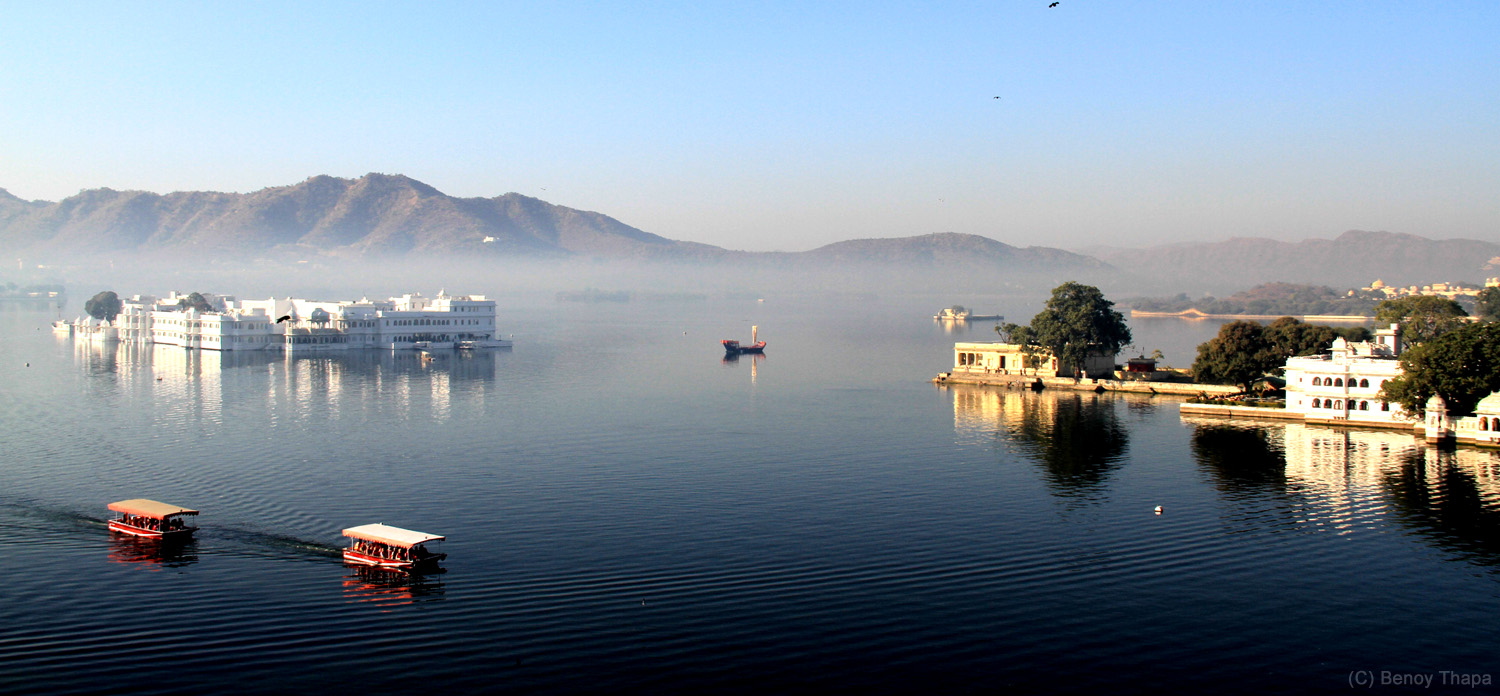 Lake Palace in Udaipur, Rajasthan, India is one of the most beautiful palace converted hotels in the world. It is owned by Taj Hotels.